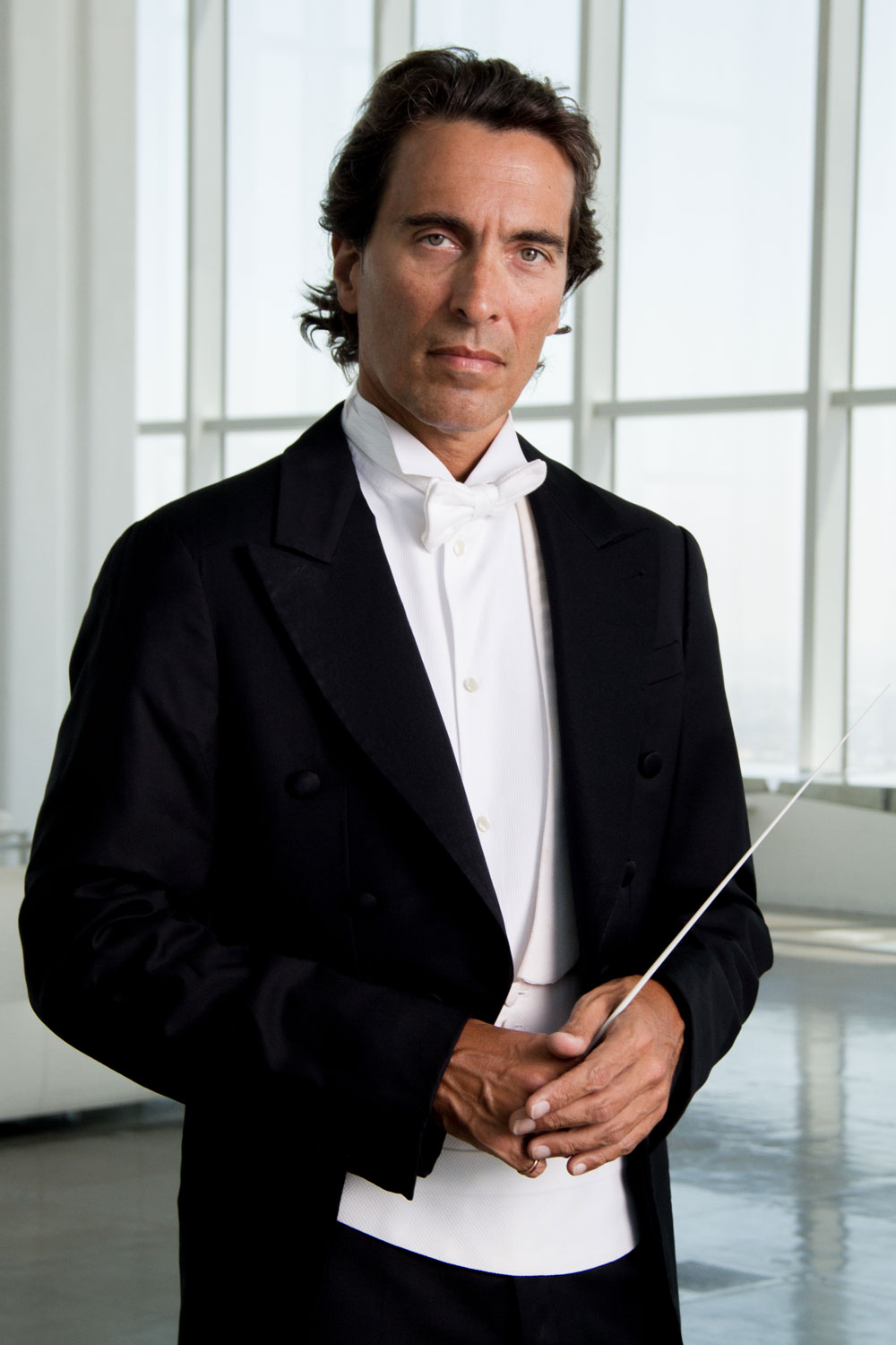 Photo of conductor Carlo Ponti, uploaded on his behalf by his management team.